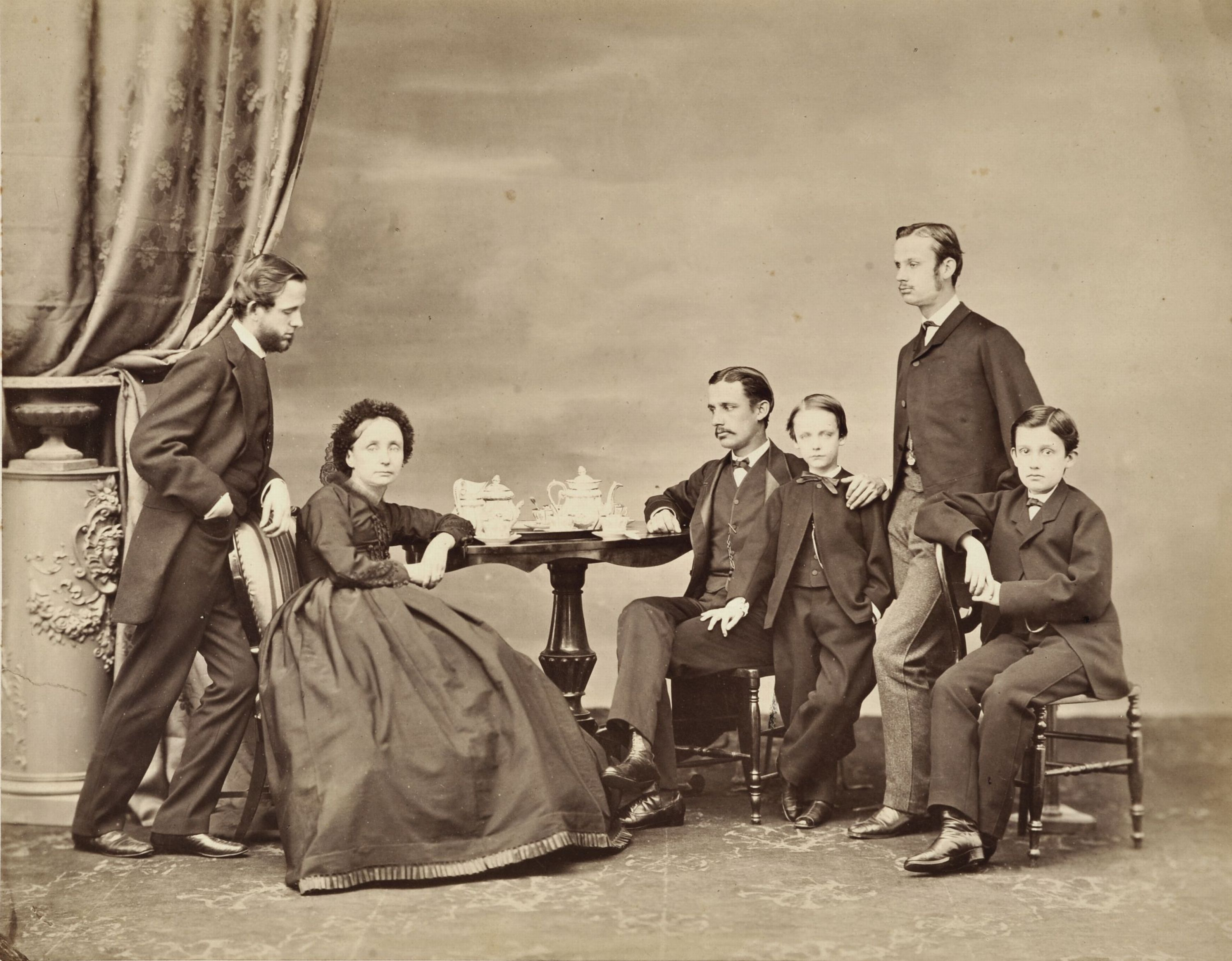 Queen Maria Theresa of the Two Sicilies surrounded by her sons.